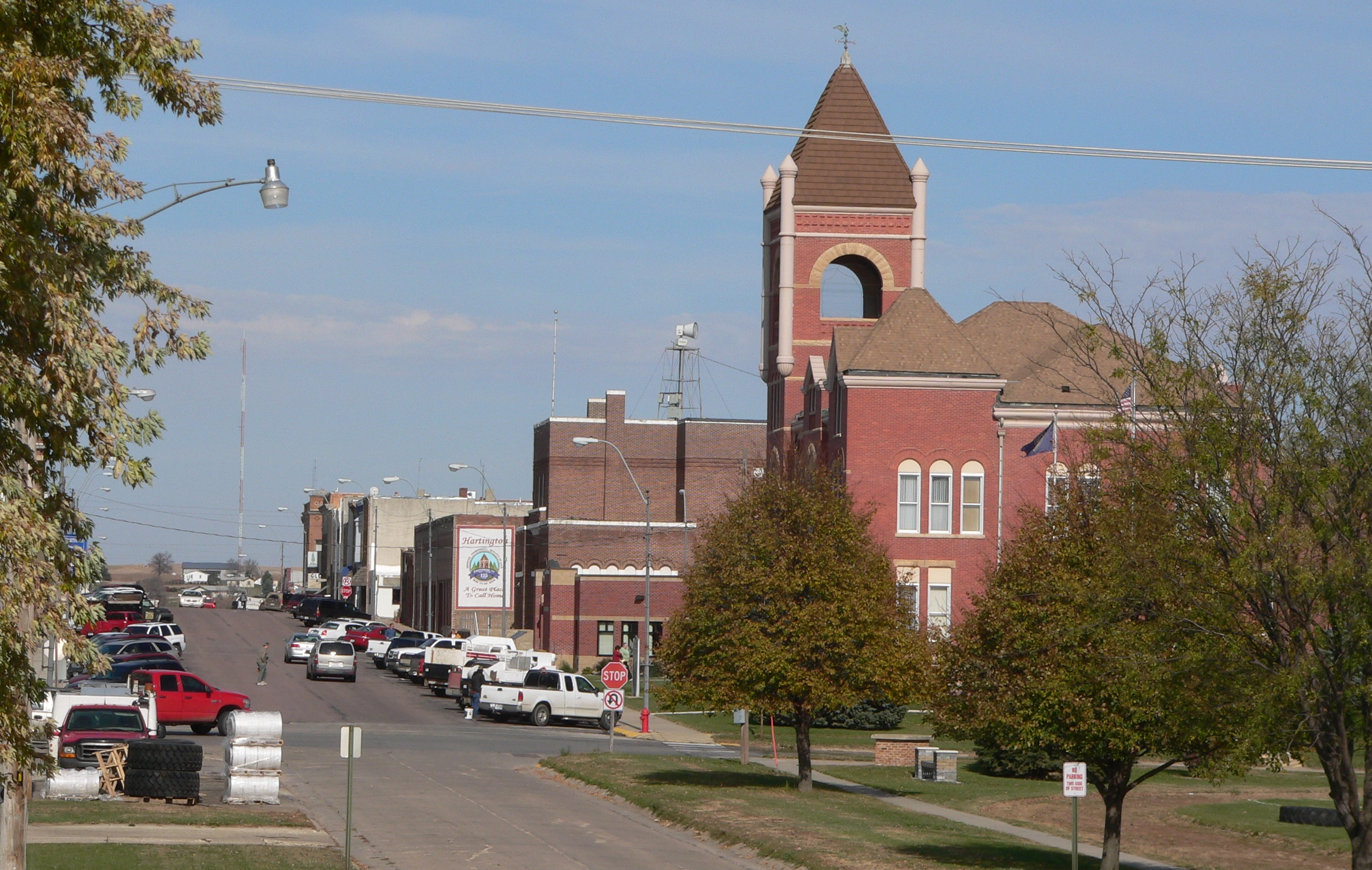 Hartington, Nebraska: Broadway Avenue, looking north from about Court Street.